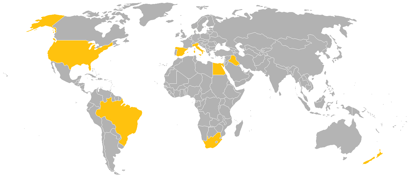 FIFA Confederation cup 2009 - teams